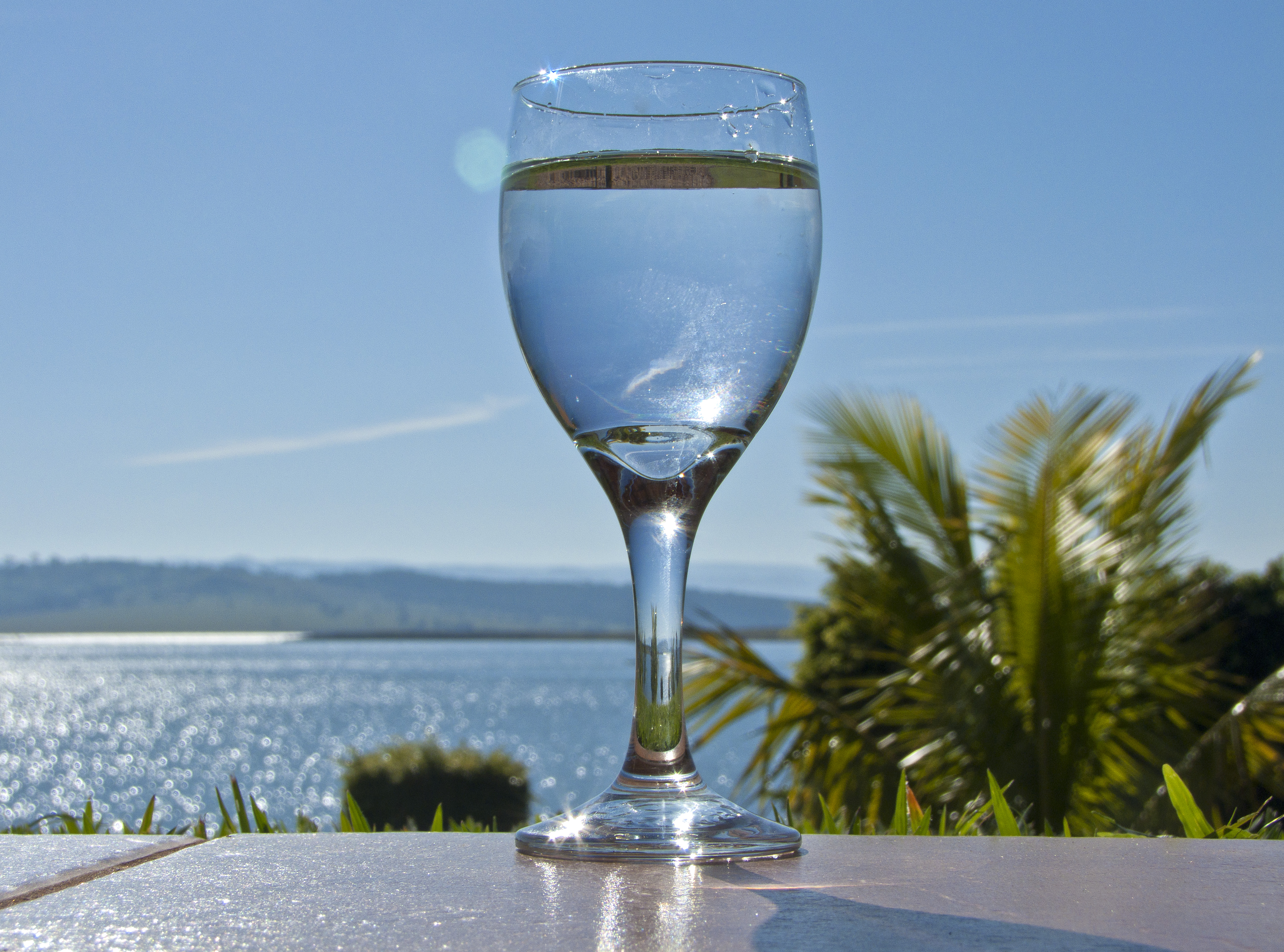 Crystal clear water - reflection coconut tree and lake